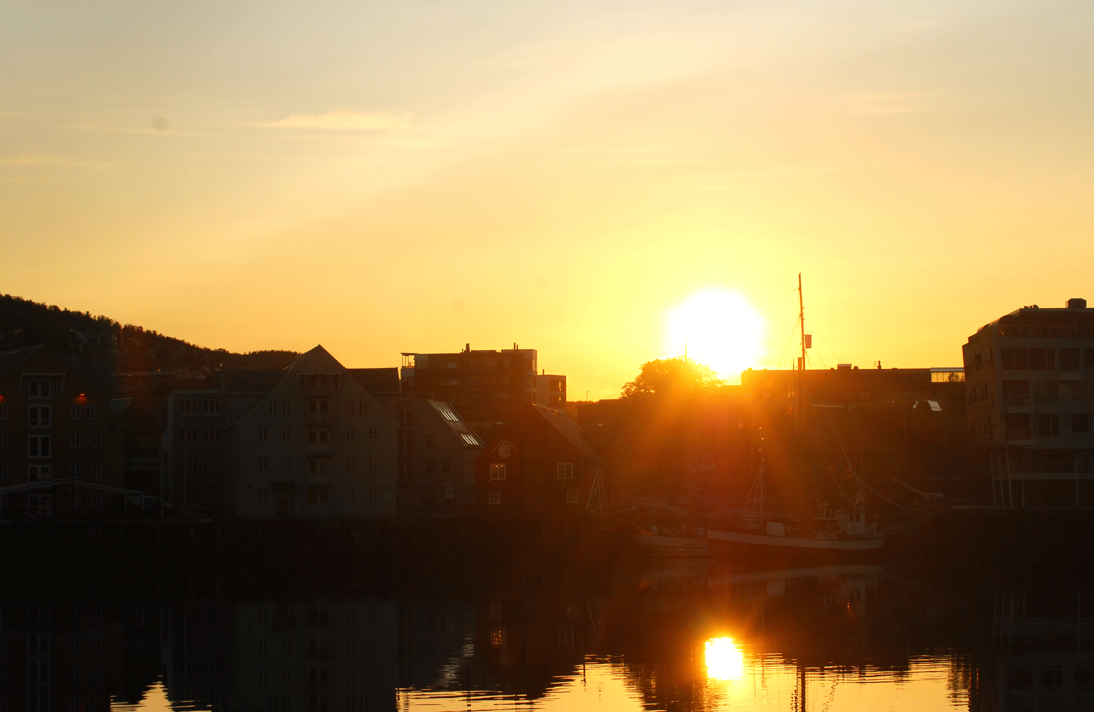 Midnight Sun in Tromsø, seen from the old port.